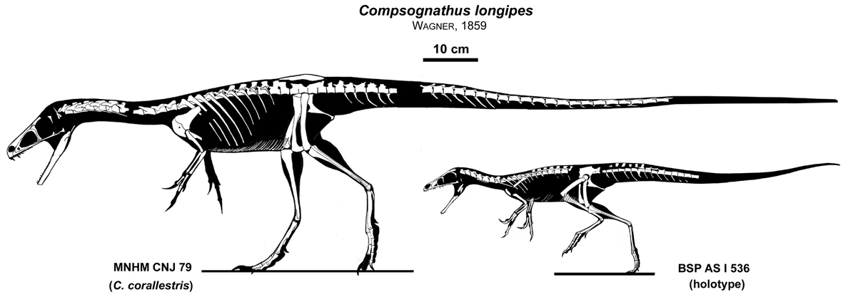 Skeletal reconstruction of Compsognathus longipes.